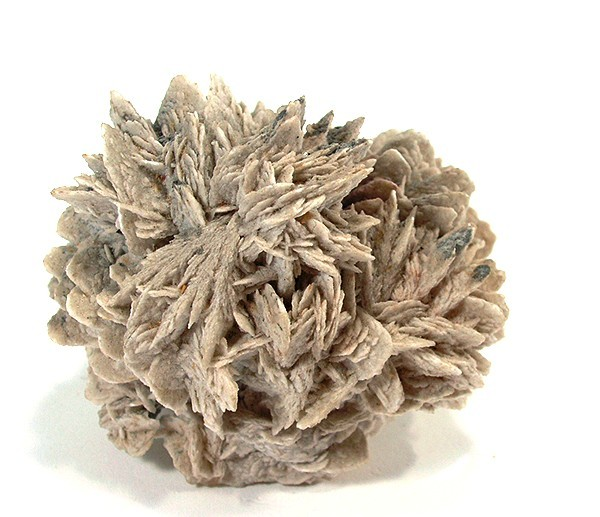 Barytocalcite Locality: Nentsberry Haggs Mine, Nent Valley, Alston Moor District, North Pennines, North and Western Region (Cumberland), Cumbria, England, UK (Locality at ) Size: 5.9 x 4.3 x 3.4 cm. Though color-challenged, this is a superb barytocalcite. Rare old material. Ex. Martin Zinn Collection.